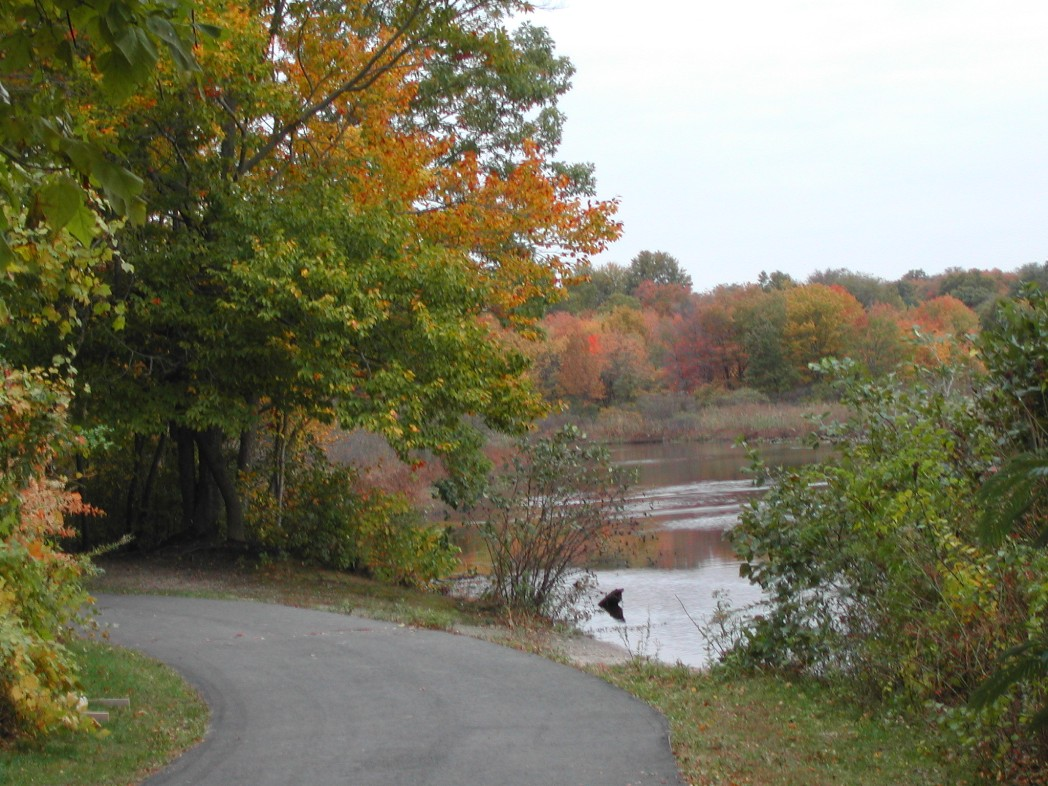 Lawrence Brook Riverwalk in Milltown, New Jersey.